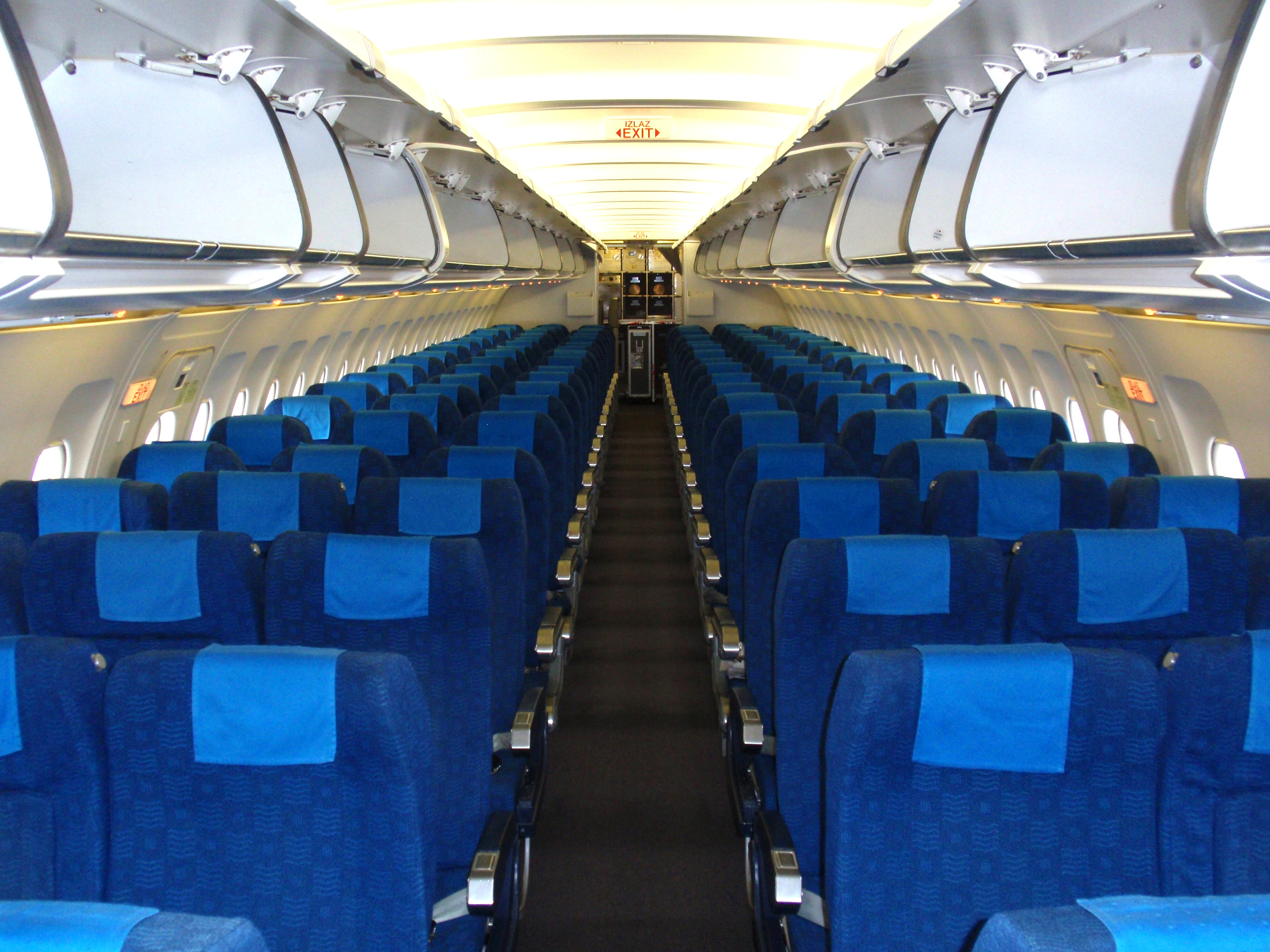 A-319 passenger cabin